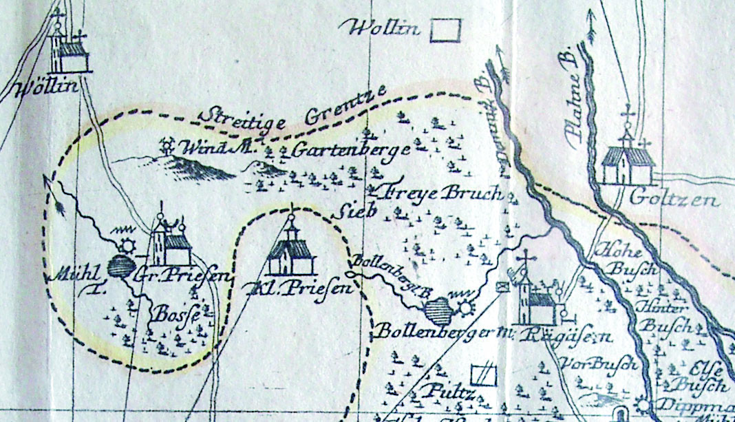 Detail of a map that shows the villages "Groß Briesen" and "Klein Briesen" near Belzig. This map was created in the year 1758 by Peter Schenk (1698-1775).